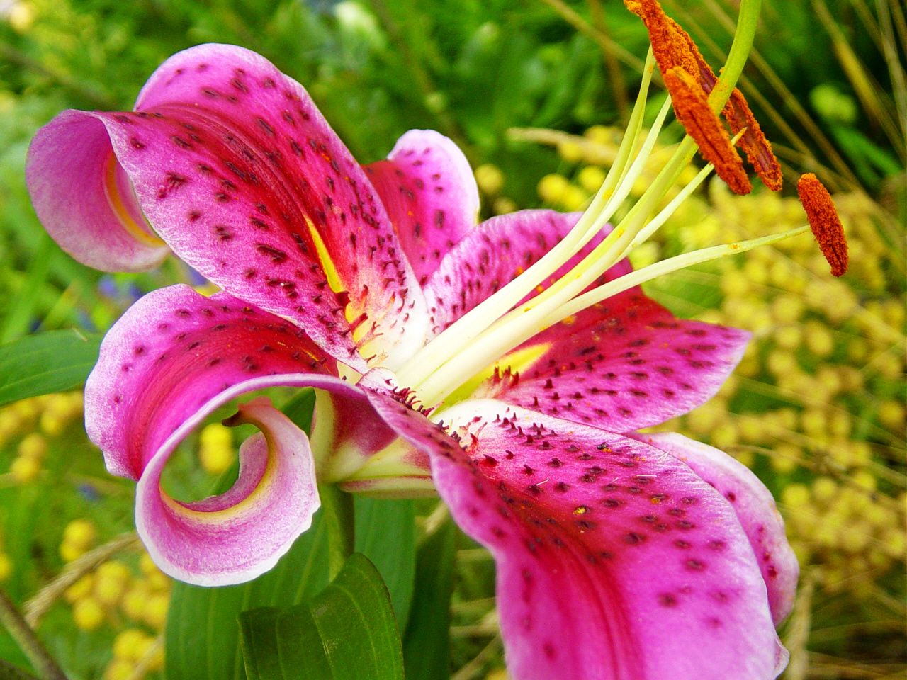 Stargazer lily in my garden (by dogmadic)